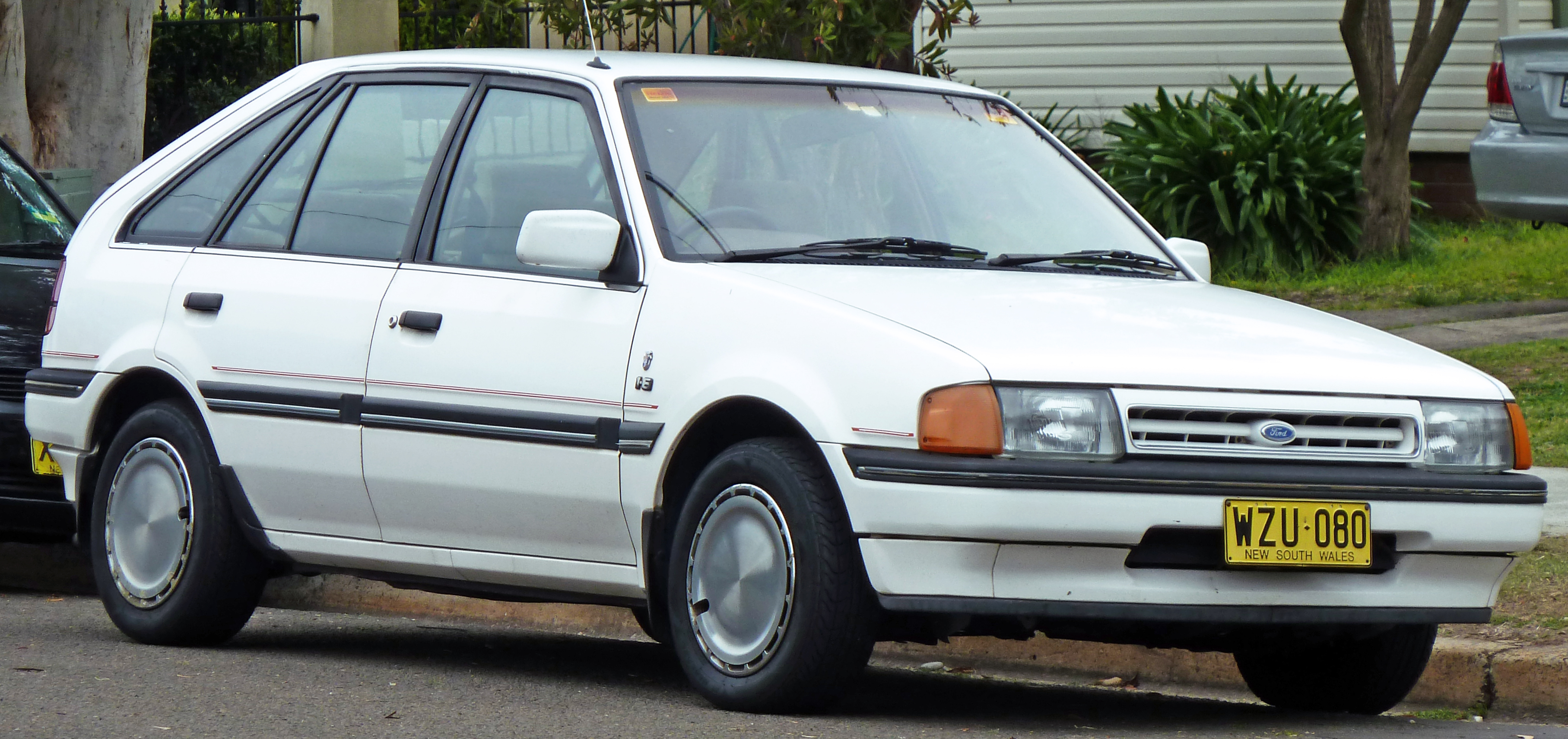 1987 Ford Laser (KC) Ghia 5-door hatchback. Photographed in Sans Souci, New South Wales, Australia.